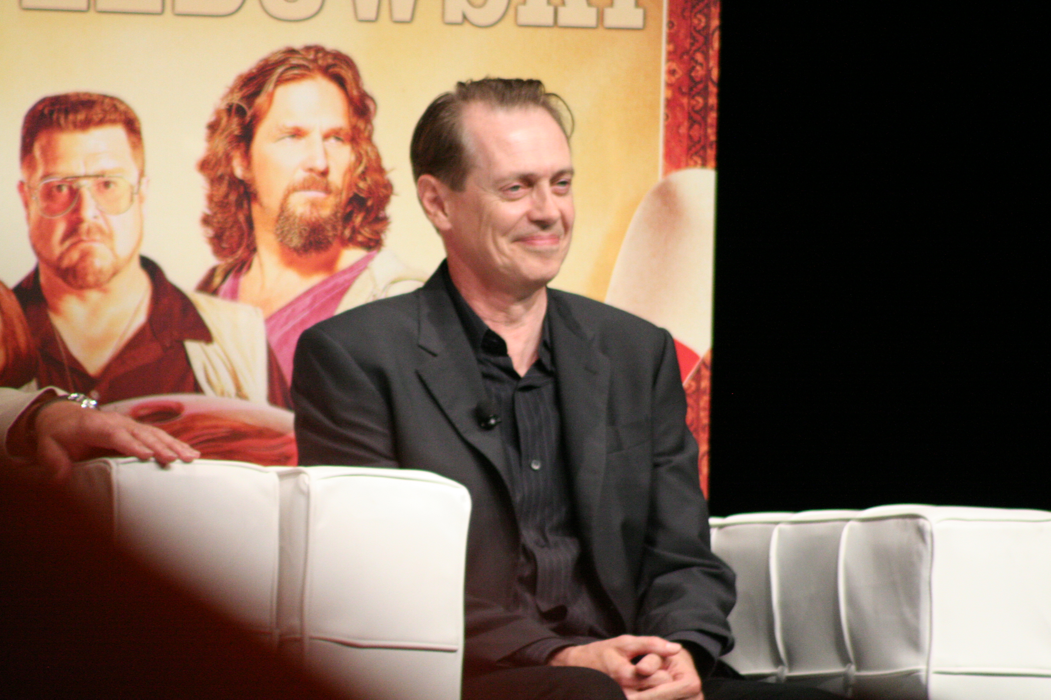 Steve Buscemi at Lebowski Fest 2011 in August 2011